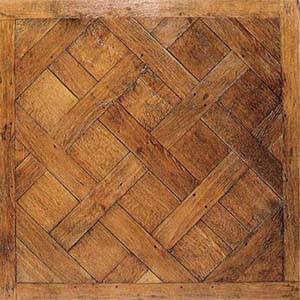 Versailles wooden flooring style